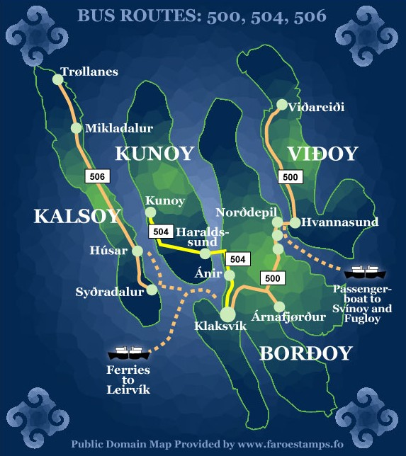 Bus routes on the northern islands, map of Norðoyar, Faroe Islands.